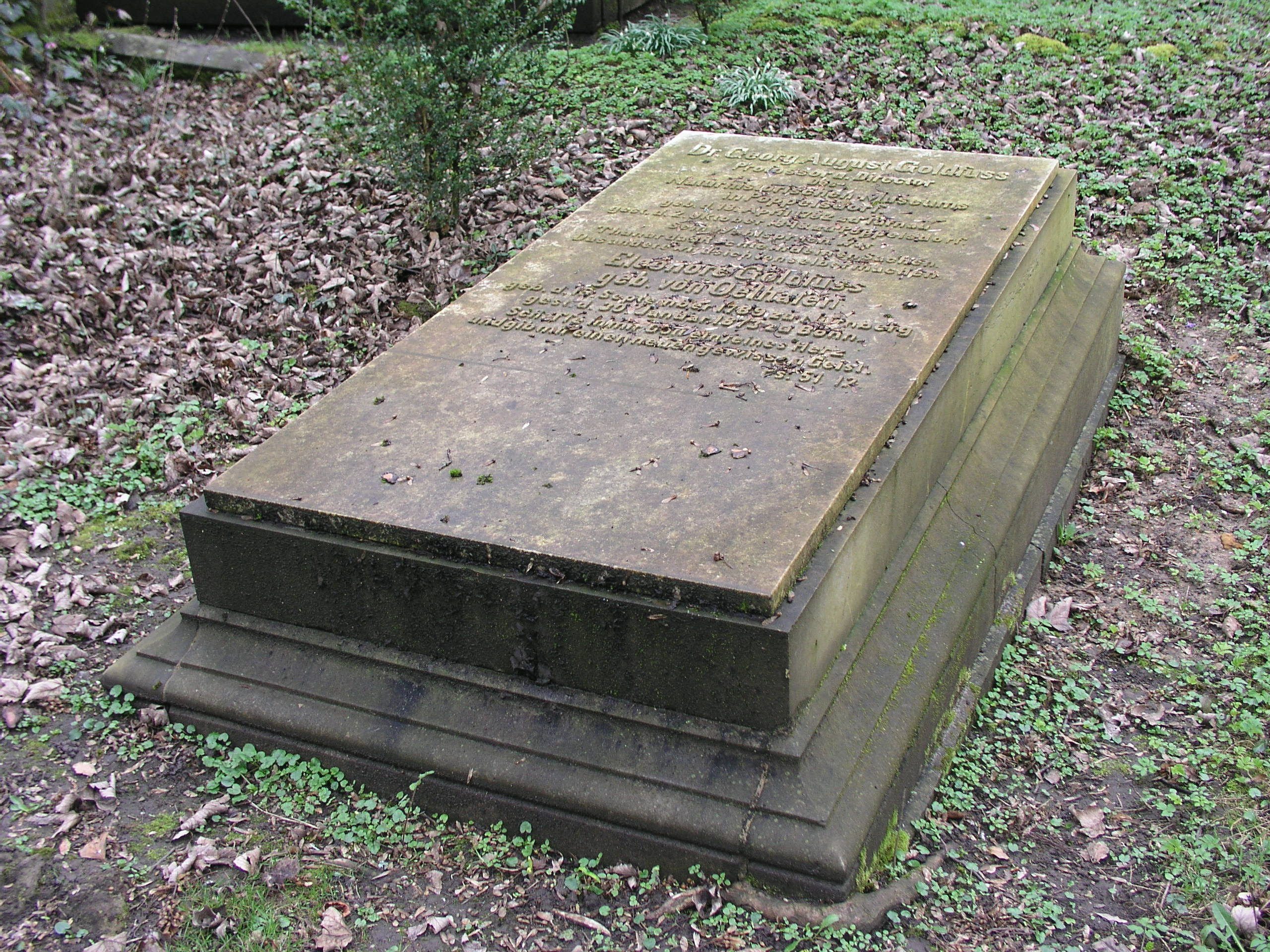 August Goldfuss